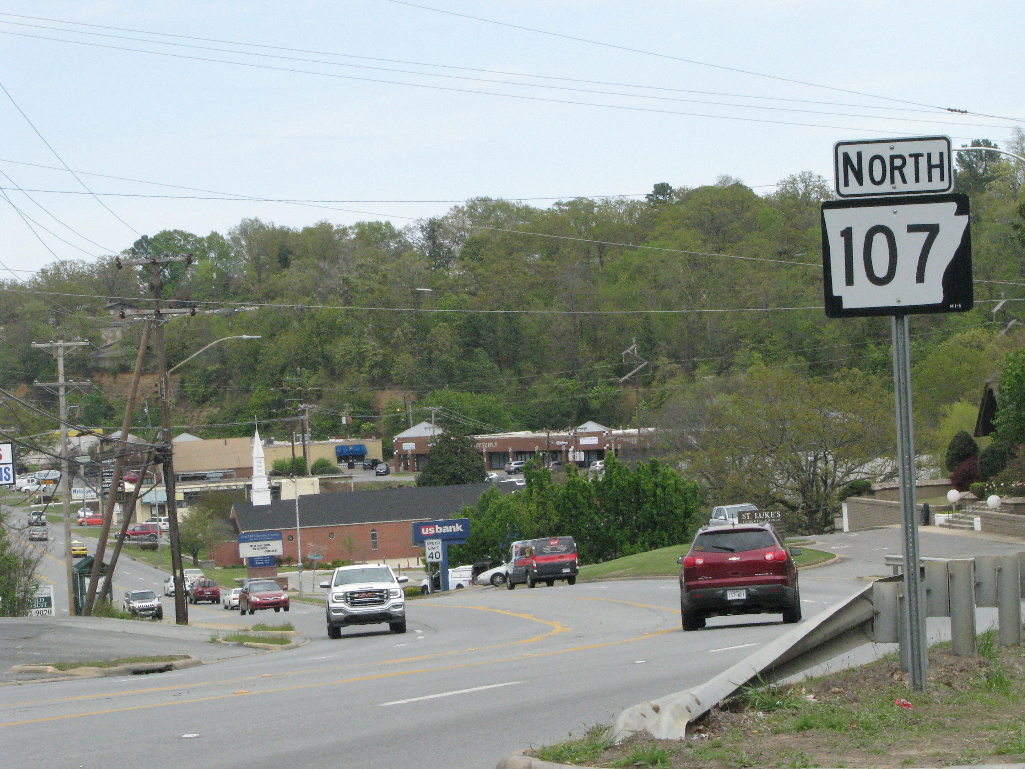 Arkansas State Highway 107 taken near Park Hill Historic District in North Little Rock.